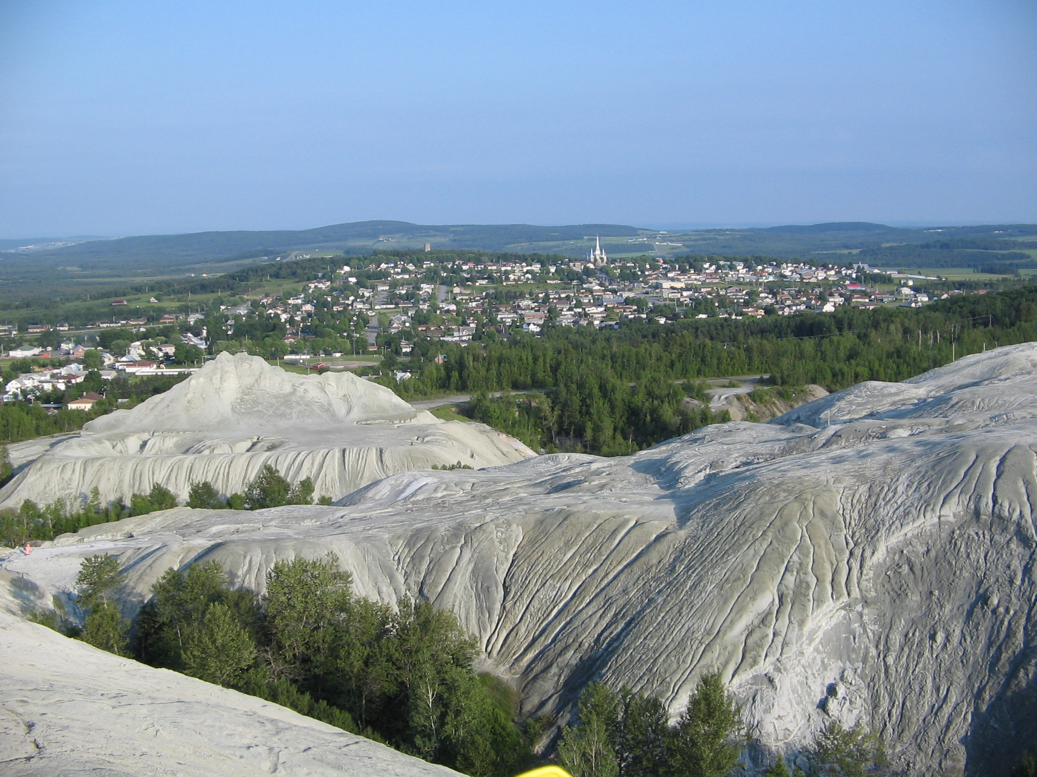 City of East Broughton